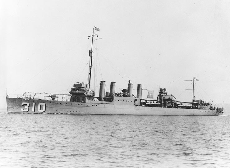 The U.S. Navy destroyer USS S. P. Lee (DD-310) photographed circa 1923, flying the Zero flag at her foremast head, indicating that she was serving as guard ship at the time. Note the Short Range Battle Practice target rigged amidships, for pointer-trainer-check sight drill on other ships steaming in company.